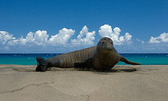 A Hawaiian monk seal on the beach at Kalalau, Kauai.